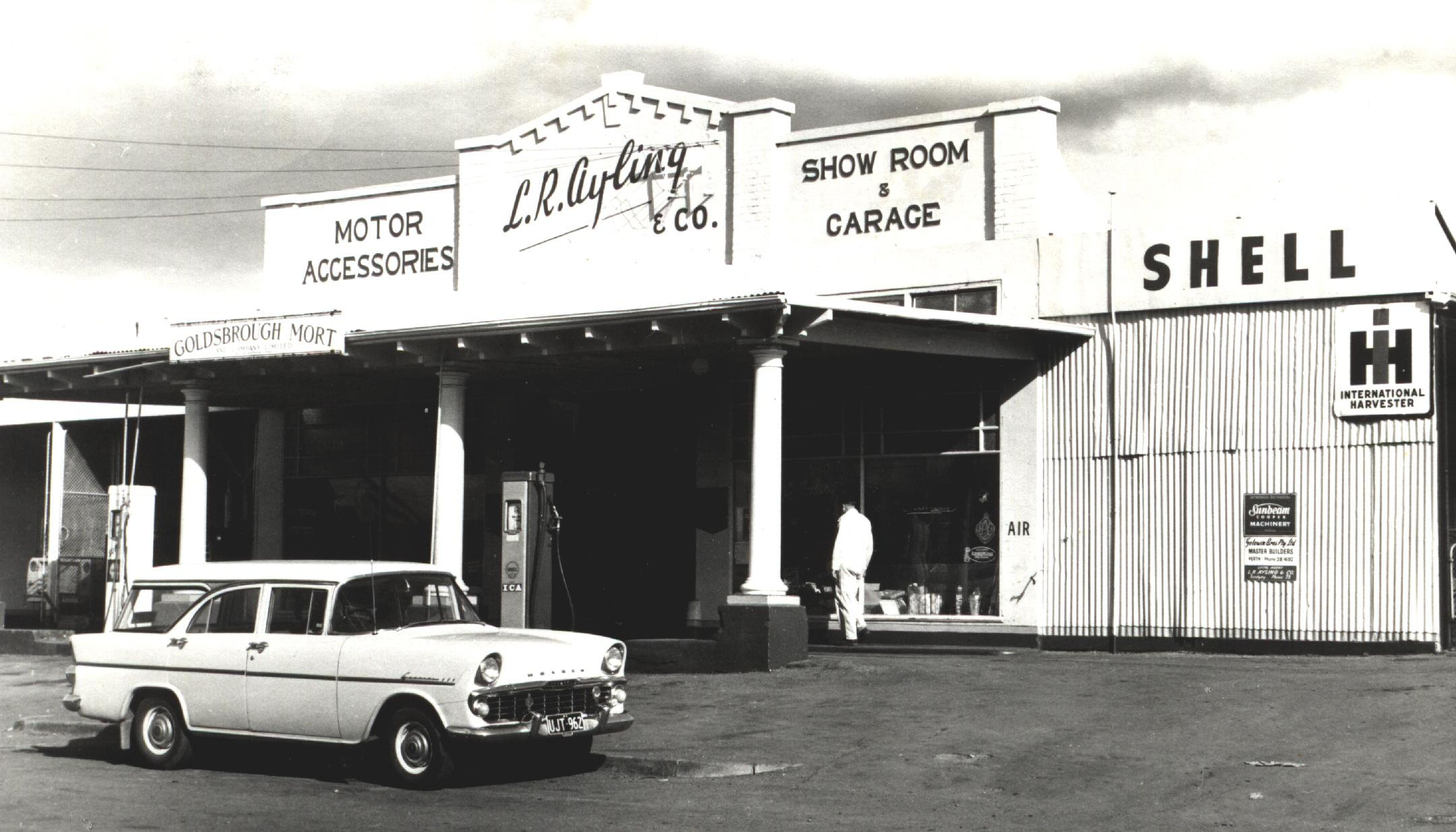 Toodyay Garage c1960: L. R. Ayling & Co.